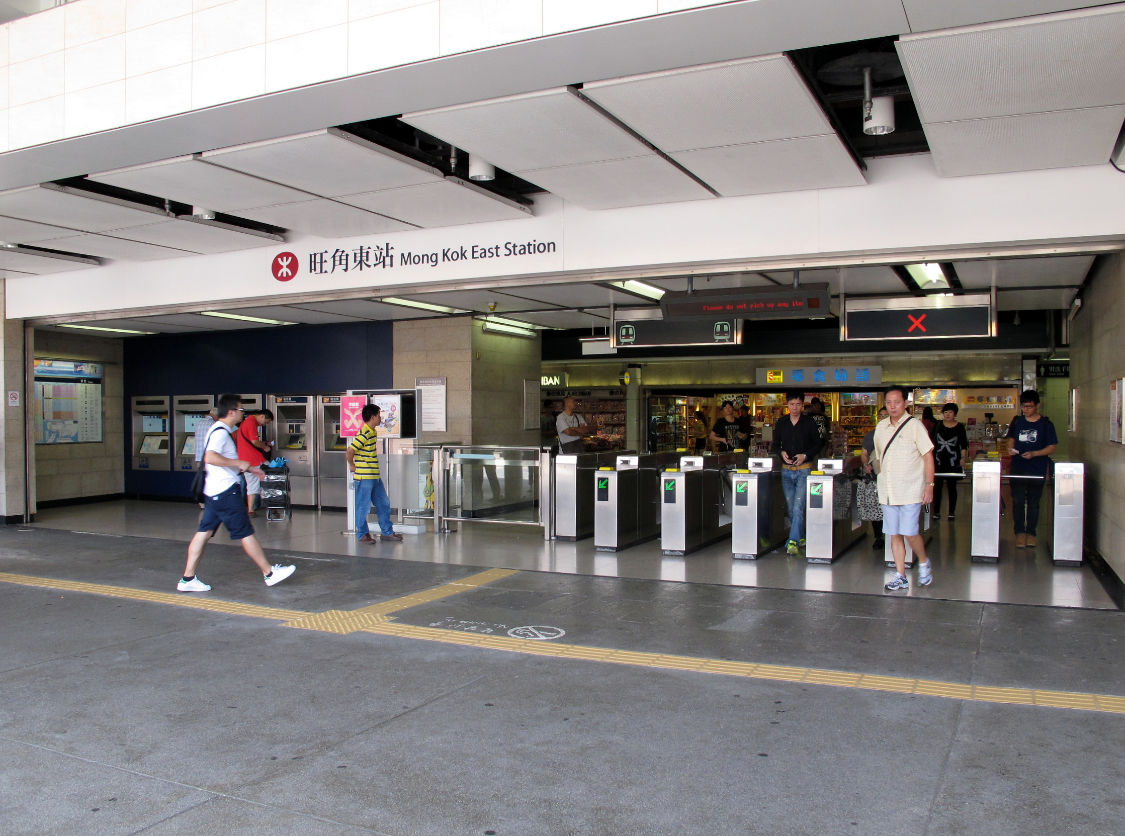 Mong Kok East Exit C 旺角東站